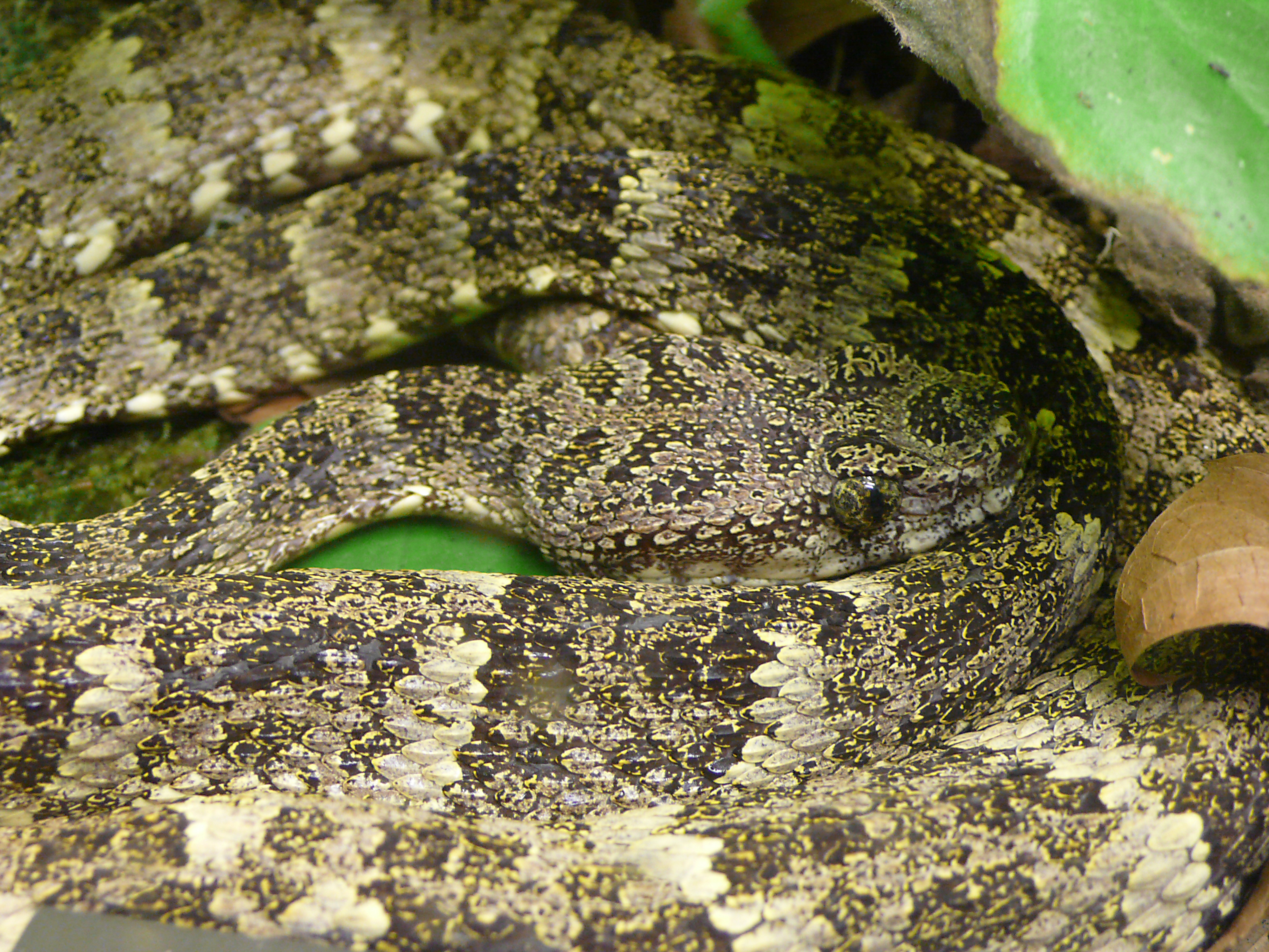 Speckled forest pitviper (Bothriopsis taeniata)